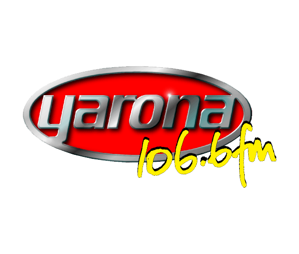 The Yarona FM logo used between August 1999 and March 2008